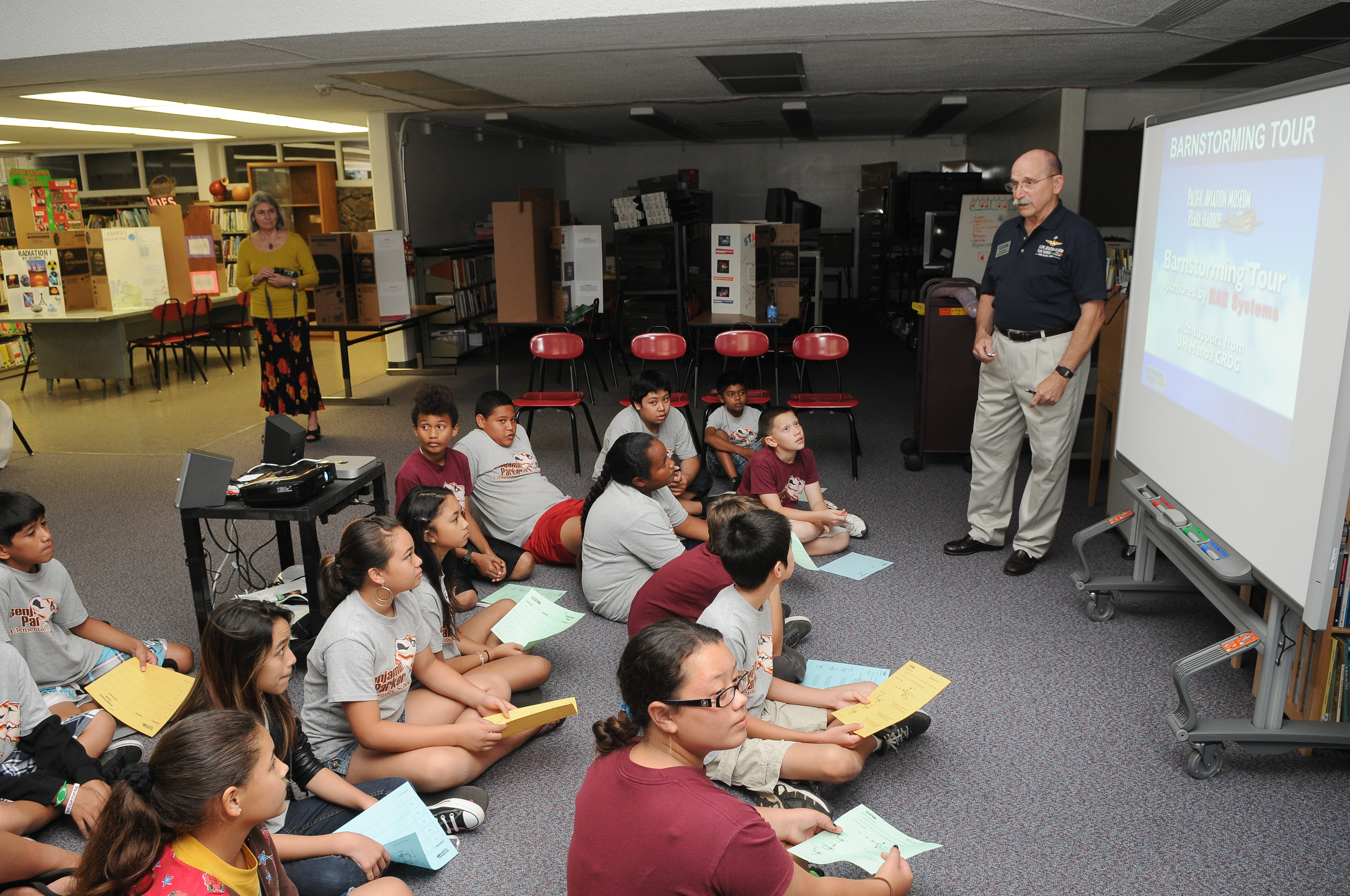 In 2008, the Pacific Aviation Museum Pearl Harbor received a grant from BAE Systems to fund its Barnstorming program to build wind tunnels and plane props that will tour local schools to teach aerospace education to sixth graders. In 2012, the program was credited with teaching 3,500 students from 40 schools